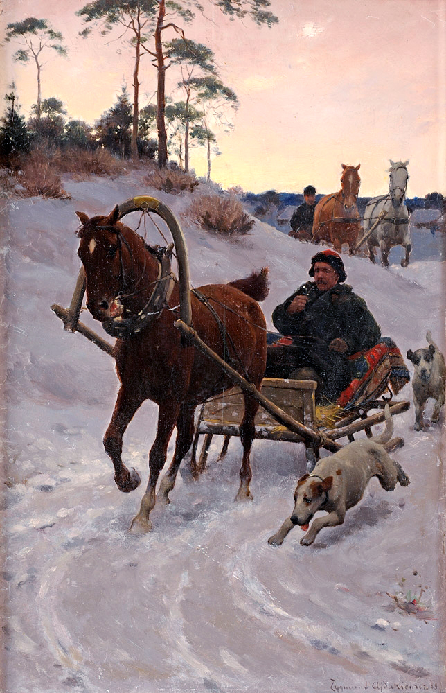 Zygmunt Ajdukiewicz, Kulig, oil on canvas, 39 x 25,5 cm